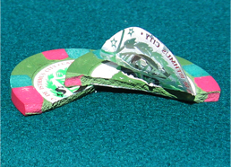 An original photograph by me. This is a clay poker chip manufactured by Blue Chip Co. The chip was designed as a replica of a set manufactured by Paulson Gaming for the James Bond film A License to Kill. The inlay features the fictional casino name 'Casino De Isthmus City' from the movie. In this image you can clearly see the inserts/edge spots are not painted on but rather sections of alternately colored clay. nl:Afbeelding:Broken clay.jpg